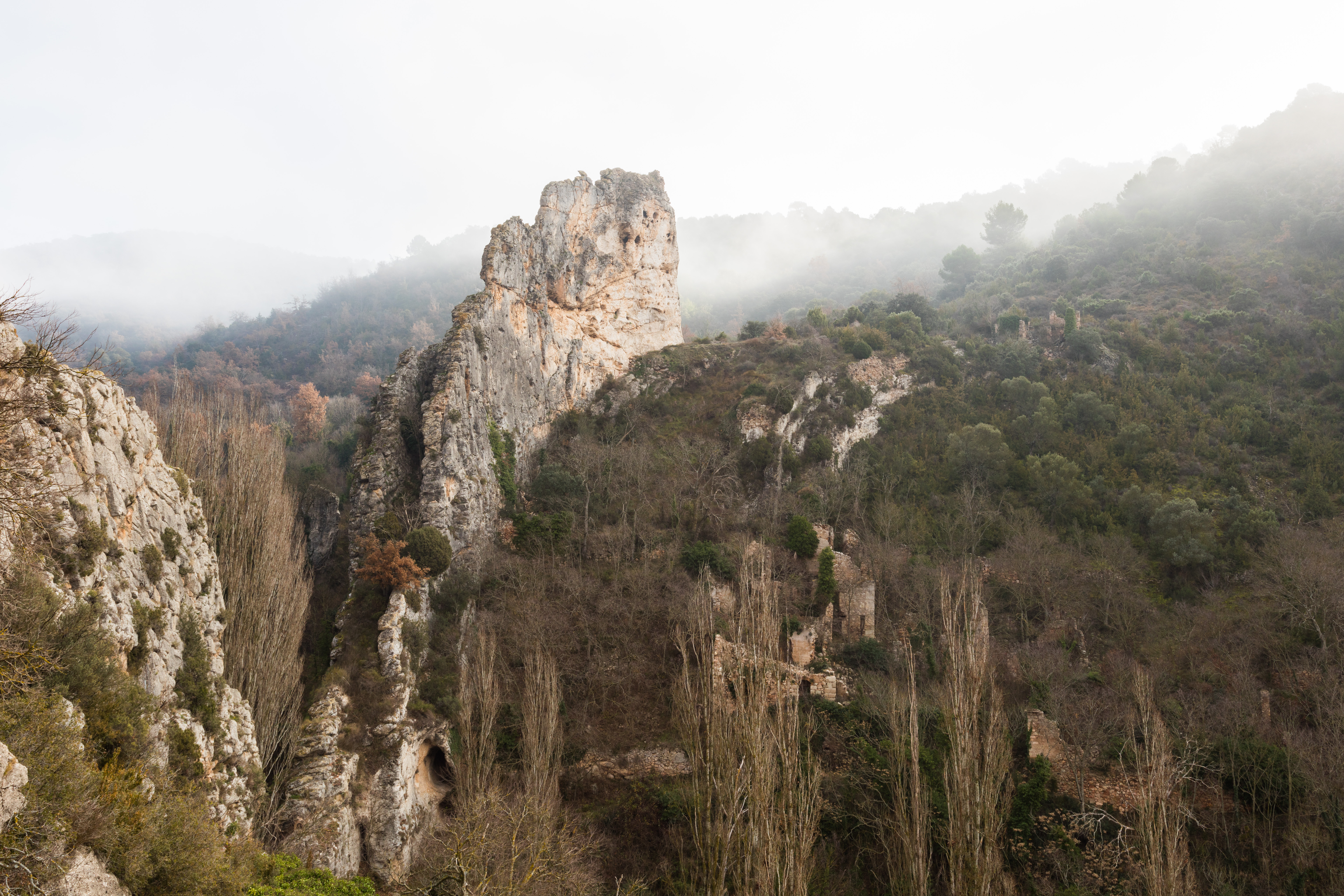 Rocks of Misdía, Gabasa, Huesca, Spain